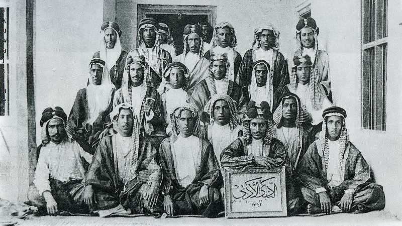 The cultural society in Kuwait, established 1924